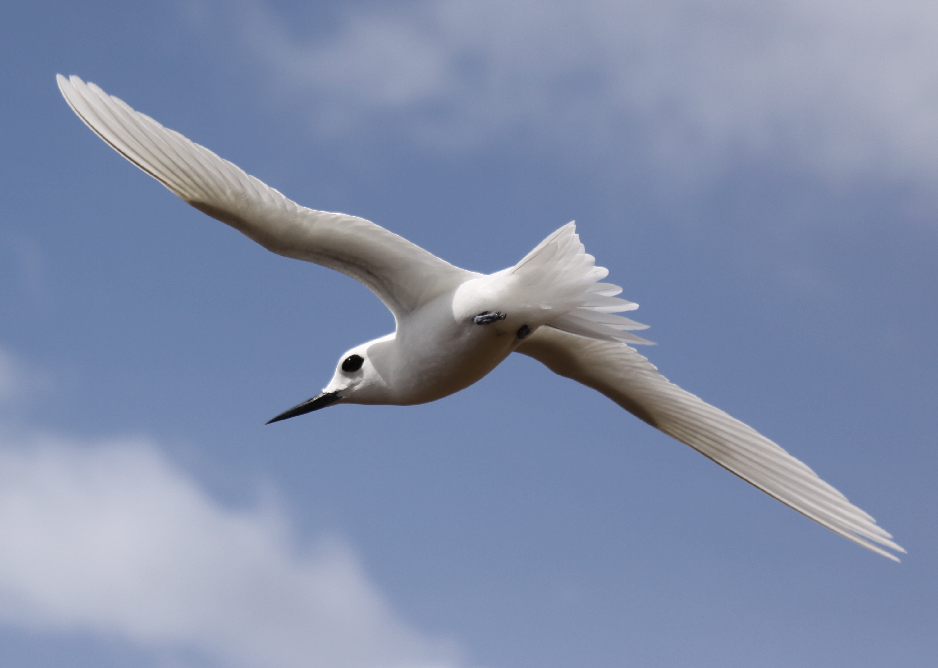 White Tern Gygis alba, Ascension Island